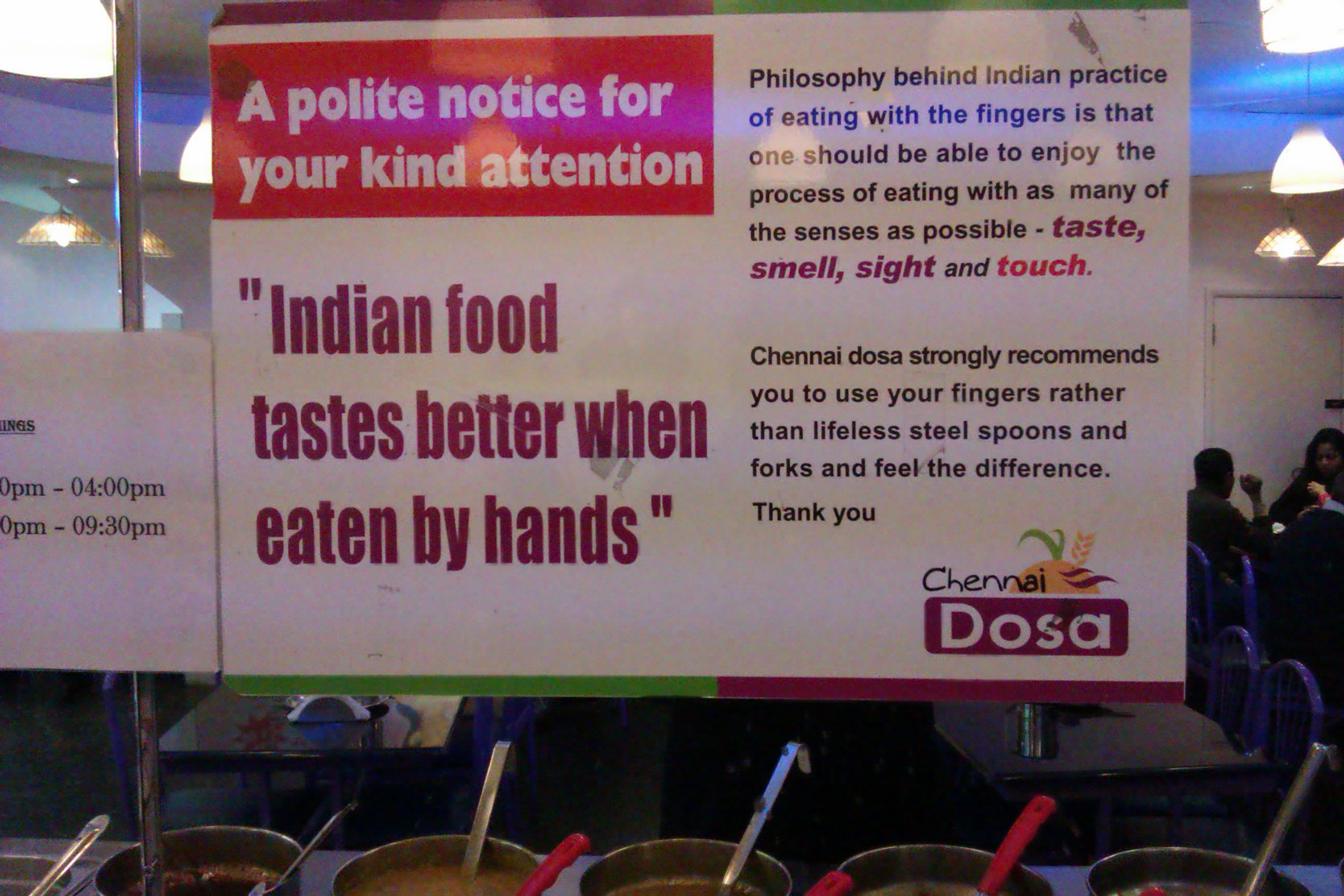 Eating by hands